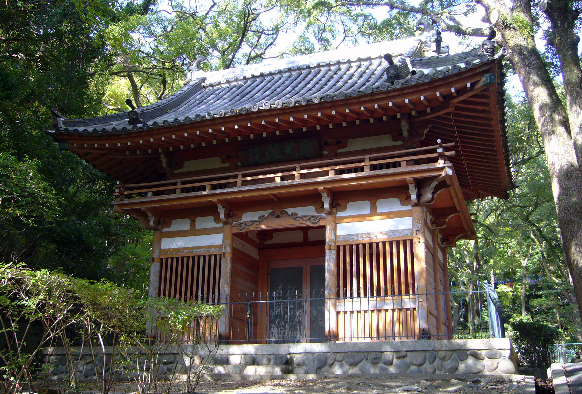 Tokko-in in Kobe, Hyogo prefecture, Japan